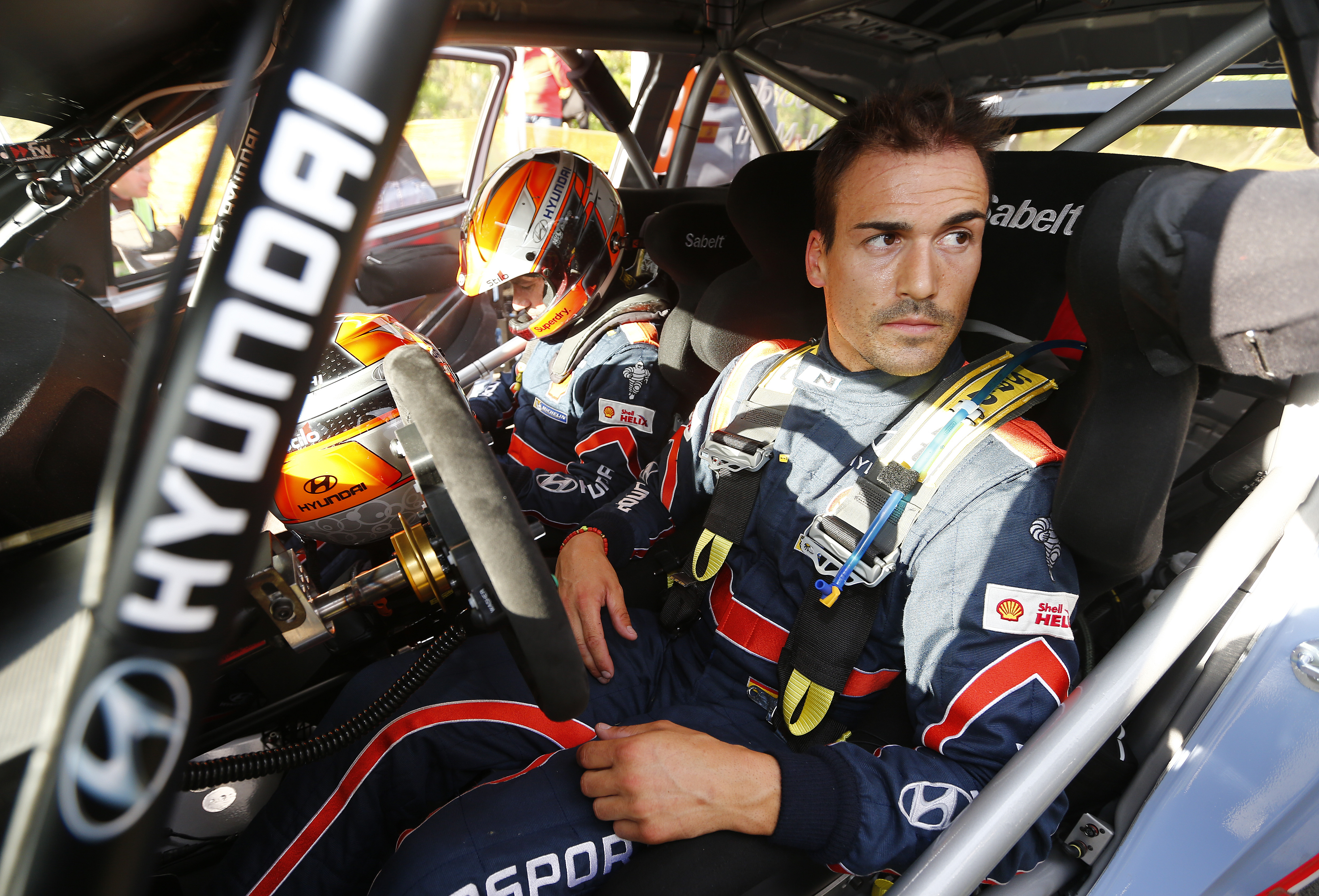 Dani Sordo and co-driver Marc Martí in their Hyundai i20 WRC at the 2014 Rally Germany (Rallye Deutschland).